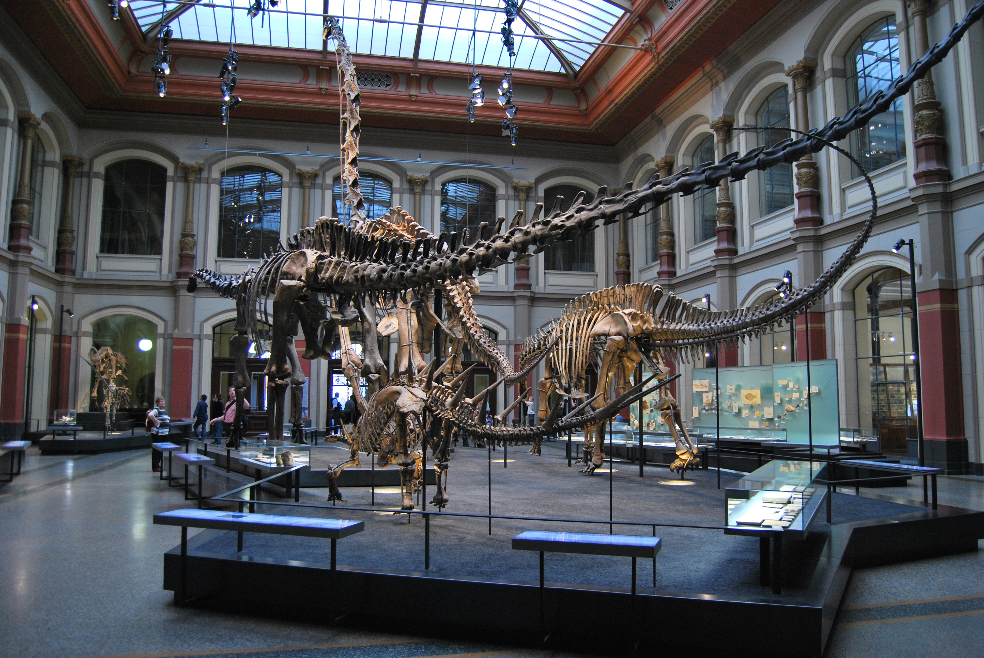 Photograph of the 'Lichthof' of the Berlin Naturkundemuseum